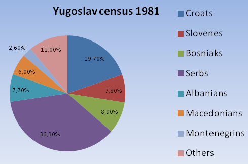 National composition of the Yugoslav population according to the 1981 census (in %).